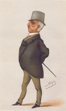 Caricature of General Lord George Augustus Frederick Paget KCB. Caption read "a soldier".